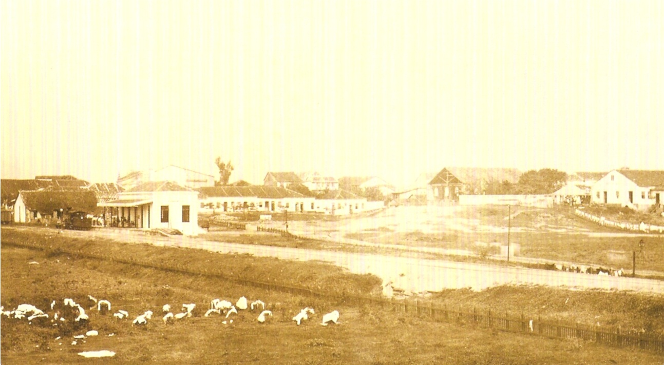 Paranaguá in Paraná province, Brazil, c.1885. Notice the railroad station to the left.